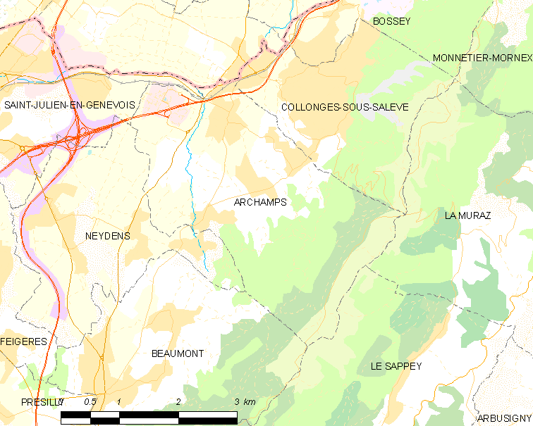 Map of French municipality Archamps